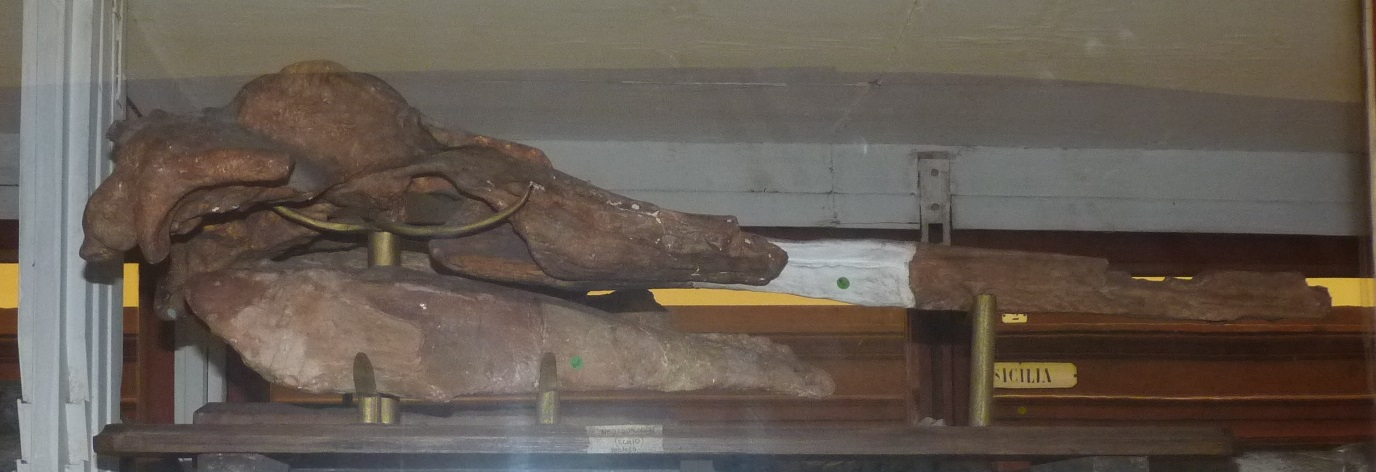 Skull of Neosqualodon, a toothed whale from the Miocene of Italy. Museo Geologico Giovanni Capellini, Bologna.